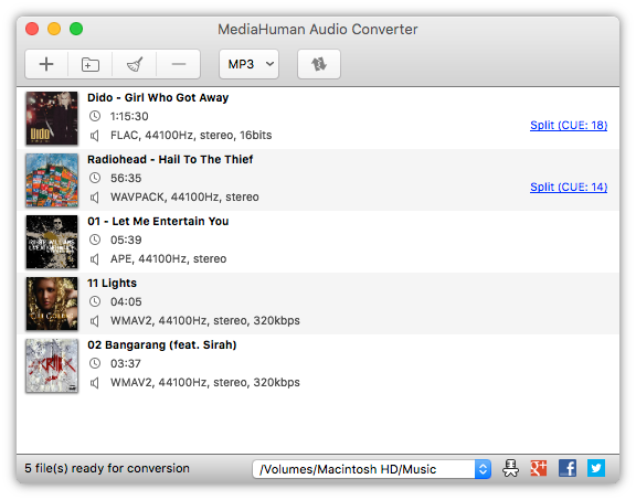 MediaHuman Audio Converter screenshot running on Mac